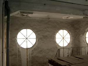 my own work, Negishi Race Track in Yokohama, Japan